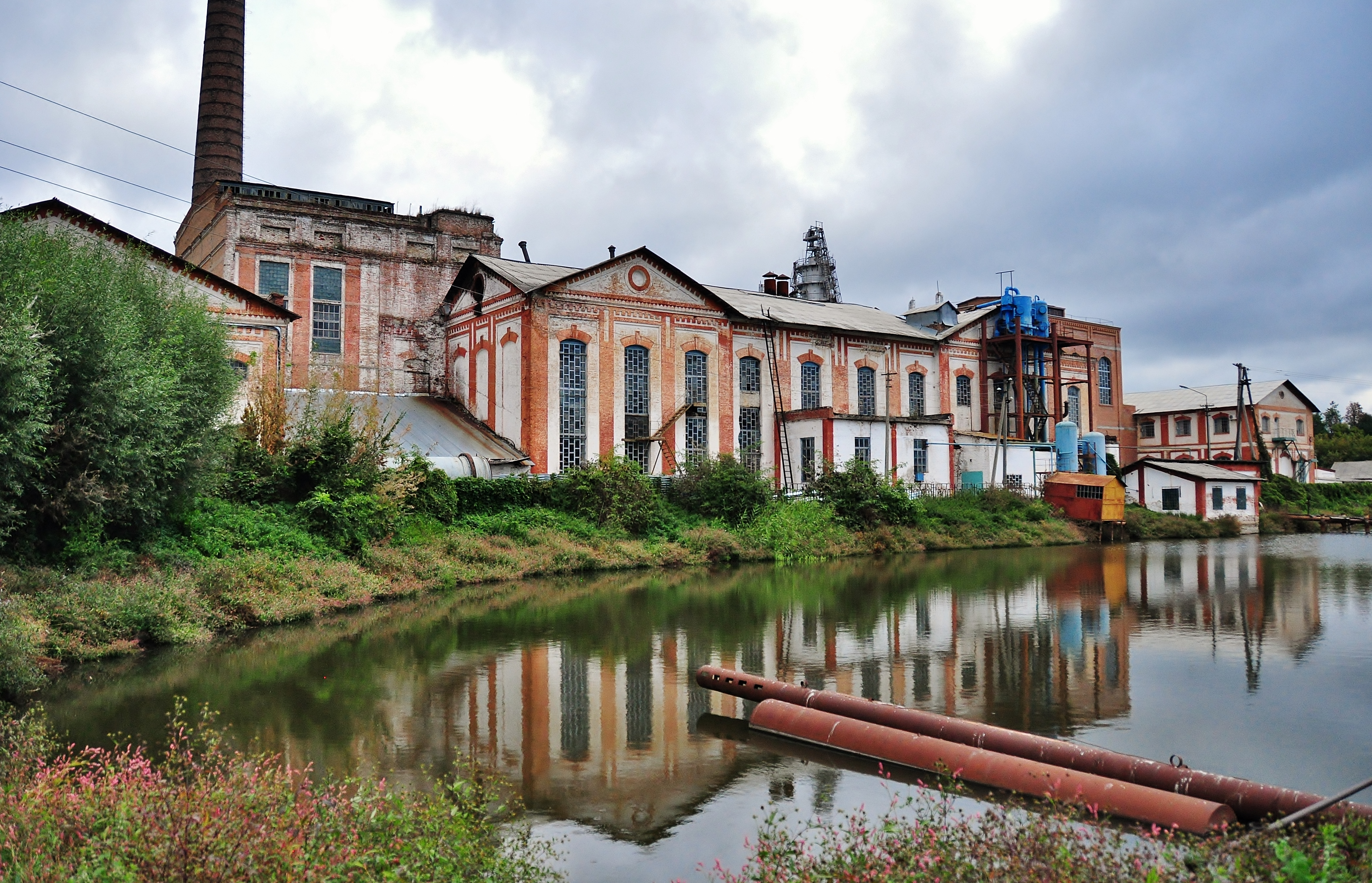 Sugar plant in Parafiivka, Ichnia Raion